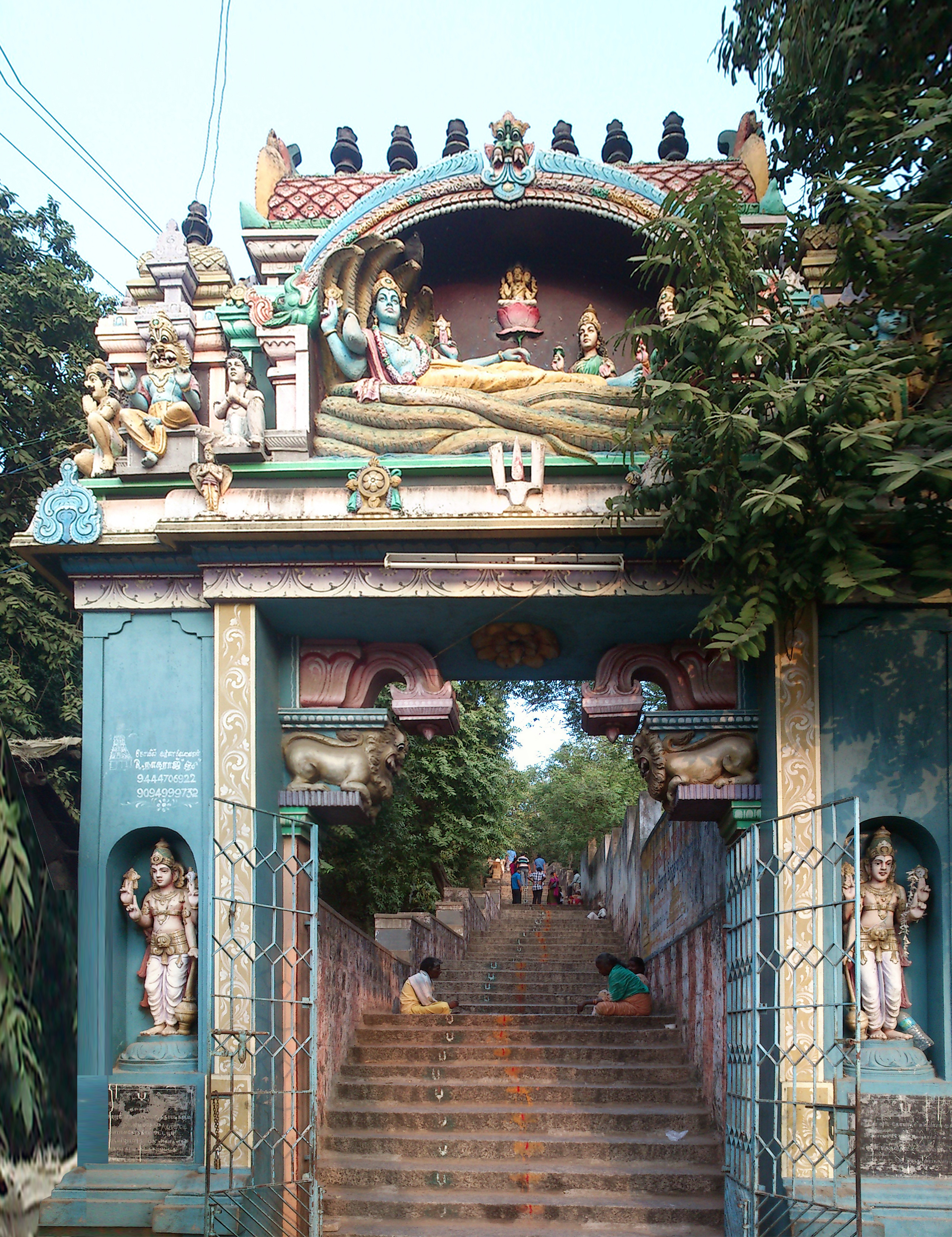 Hill entrance to Sri Ranganathaswamy temple on small hill opposite to Sri Neervannaperumal temple at Thiruneermalai. Thousands of years old visited by Alwars (Naalayira Divya Prabhandham)